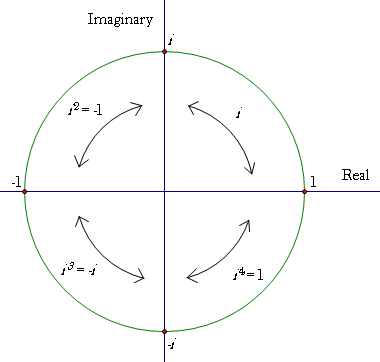 90-Degree Rotations